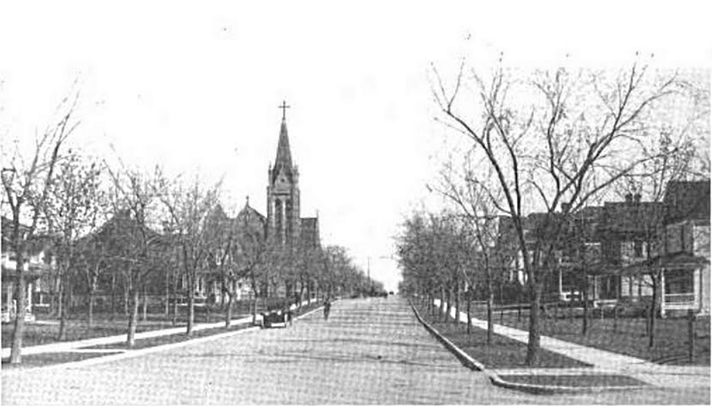 Looking east down Third Avenue North in Great Falls, Montana, in the United States in 1920. St. Ann's Cathedral, a Roman Catholic church, is visible on the left. This are is now part of the Great Falls Northside Residential Historic District.